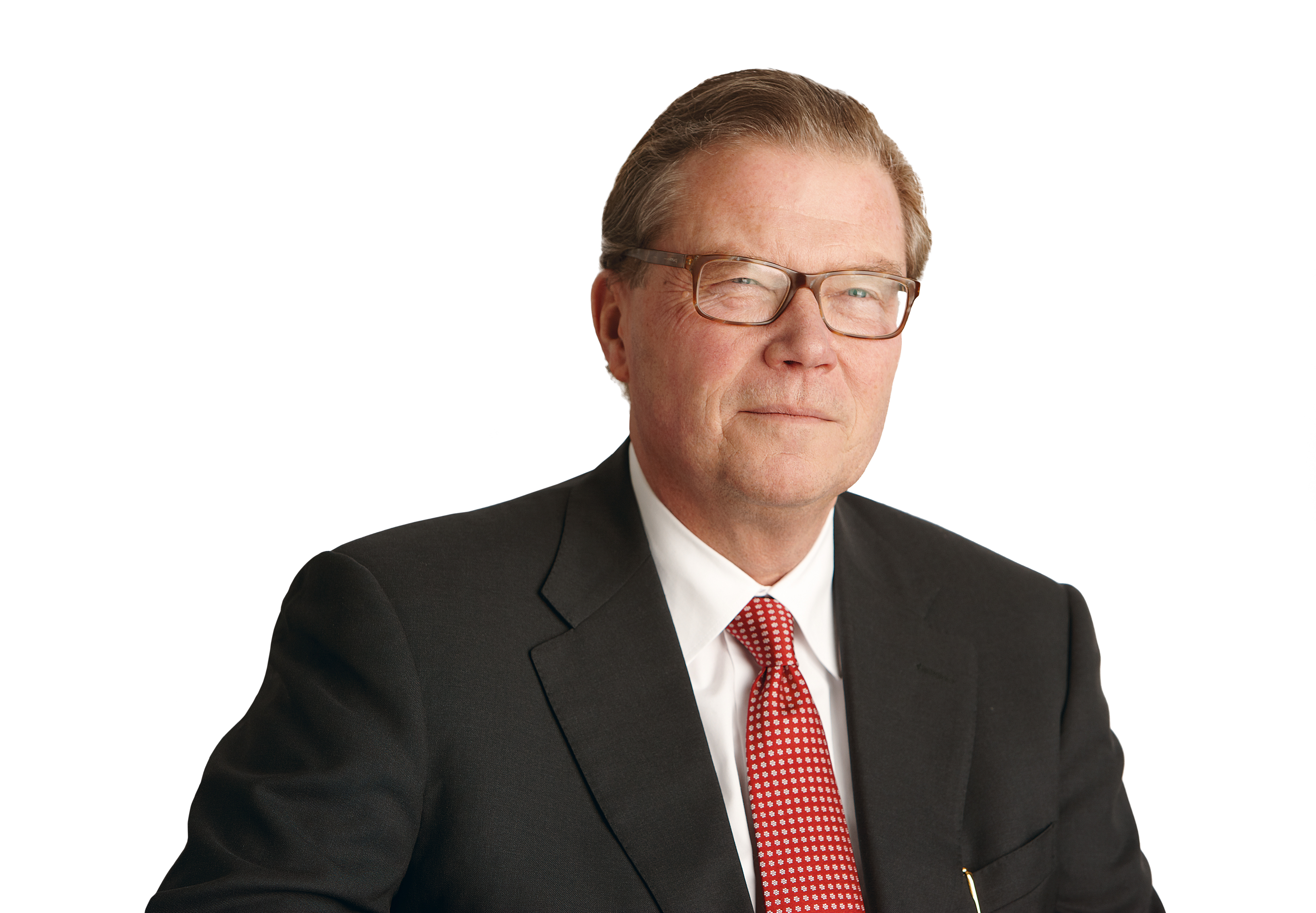 Leif Johansson, former CEO of the Volvo Group, Chairman of the Board of Directectors of AstraZeneca and Ericsson.